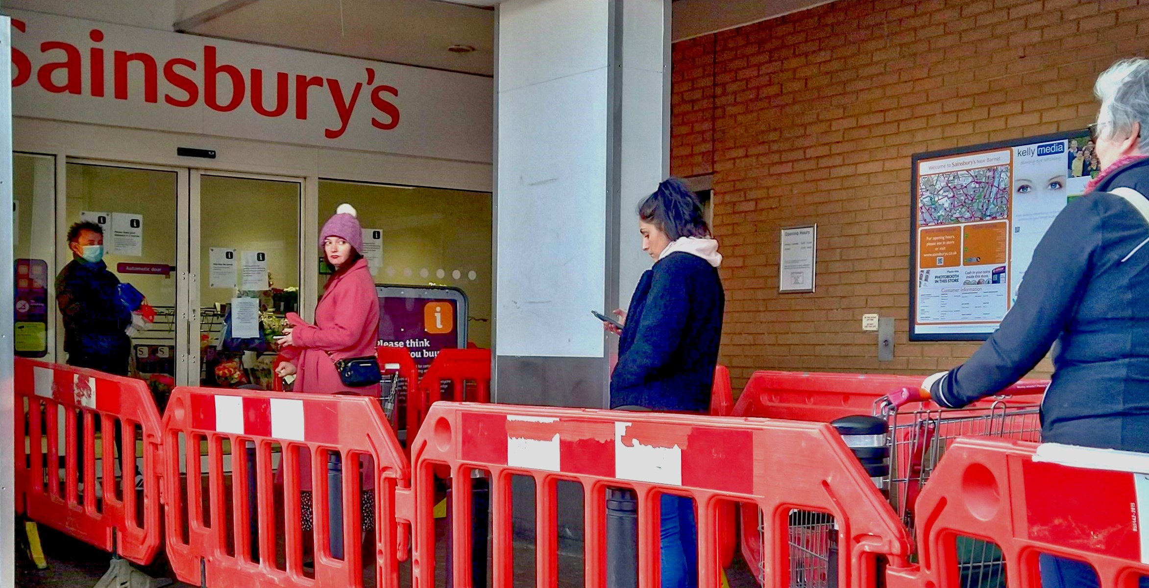 Social distancing queueing for the supermarket J. Sainsbury's north London Coronavirus Covid 19 pandemic 30 March 2020.